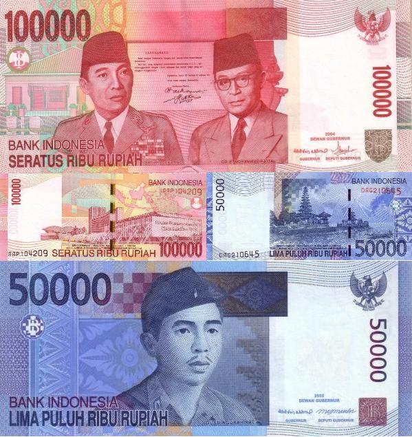 Two (2) highest denominations (Rp100000 and Rp50000) of Indonesian Rupiah (IDR) banknotes